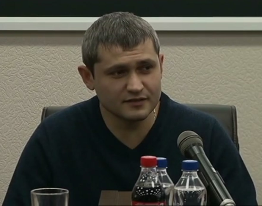 Oleh Omelchuk, Ukrainian sport shooter